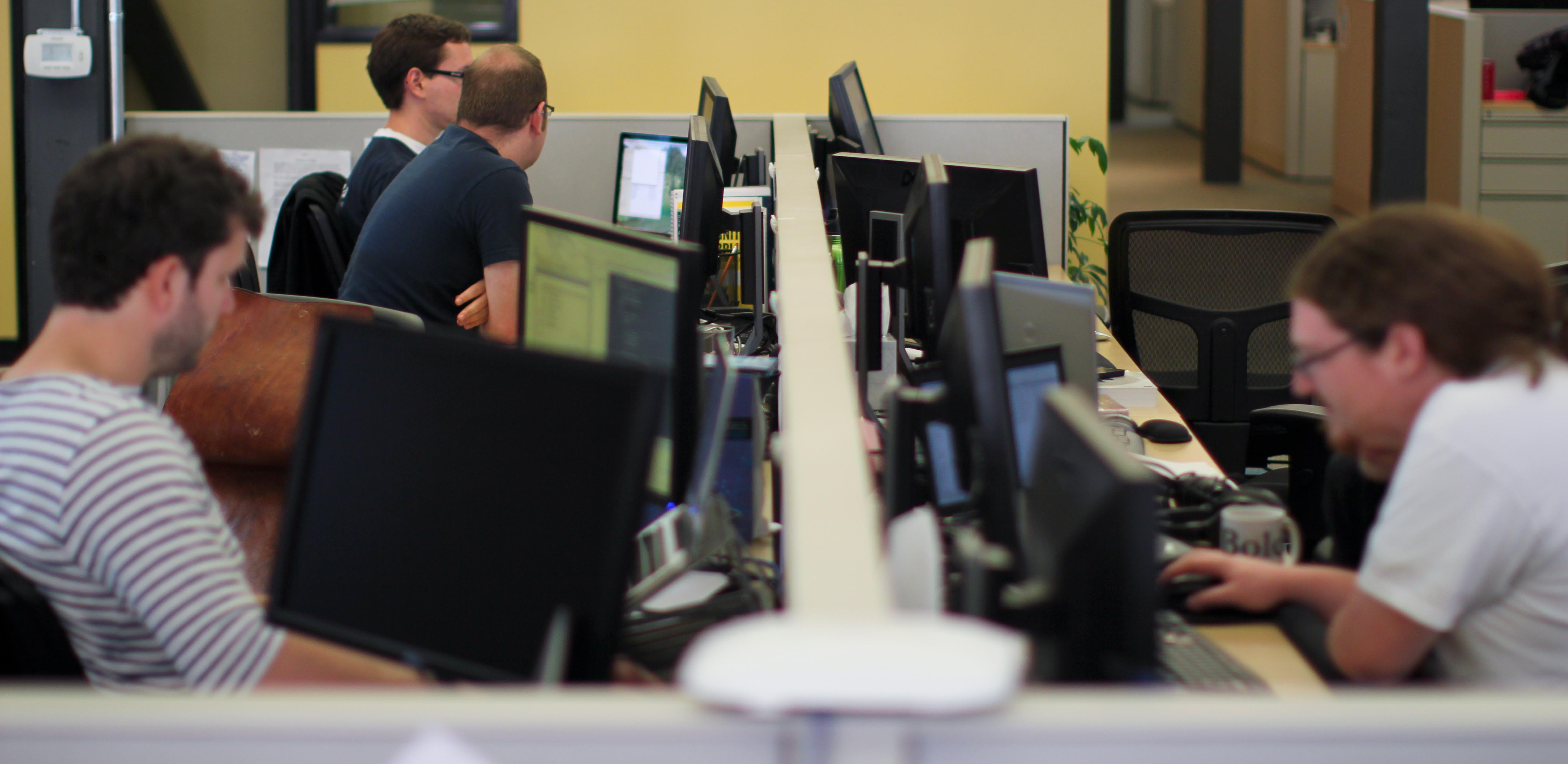 People working at the Wikimedia Foundation